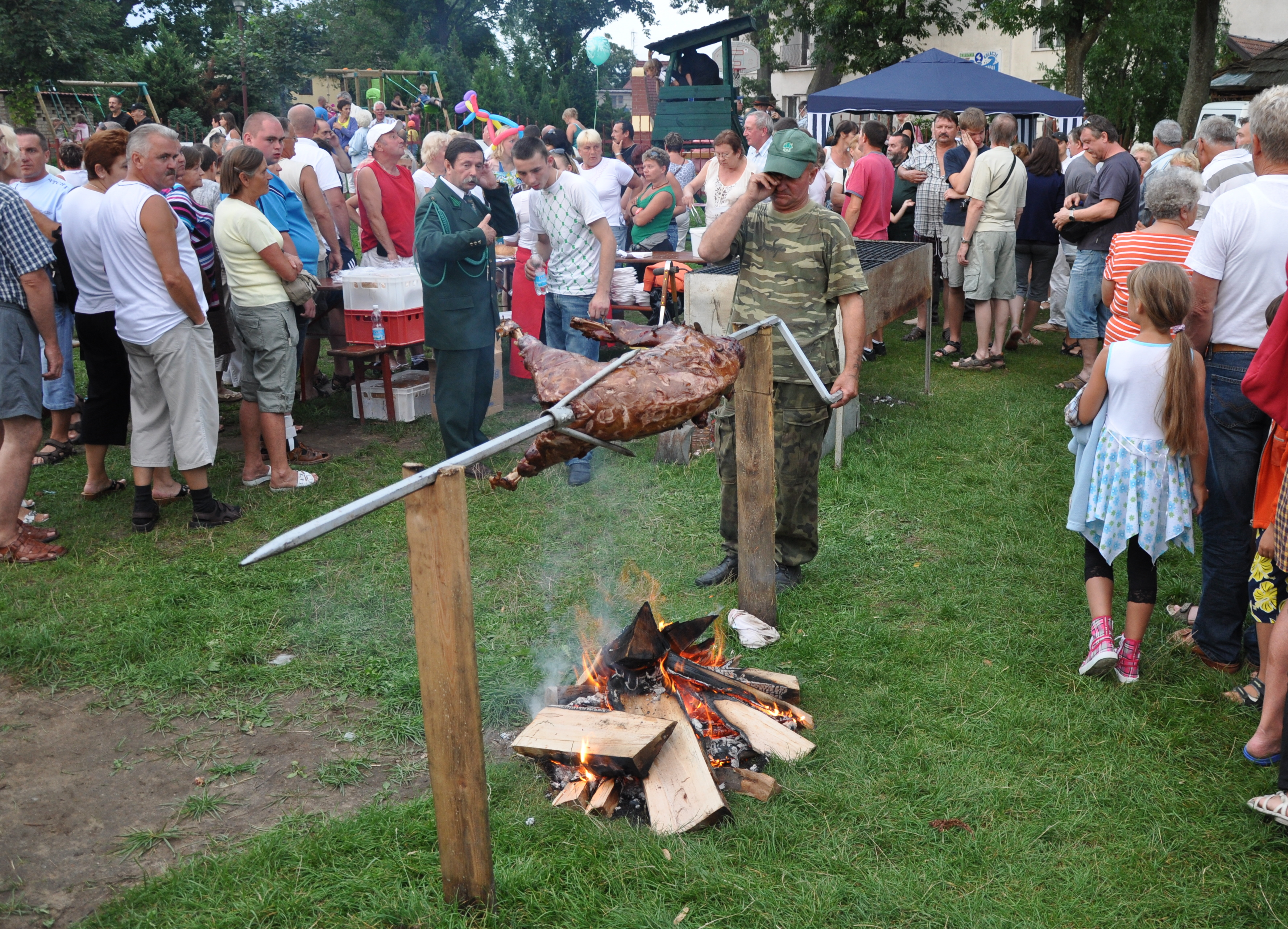 Summer Hunting Feast in Mrzeżyno